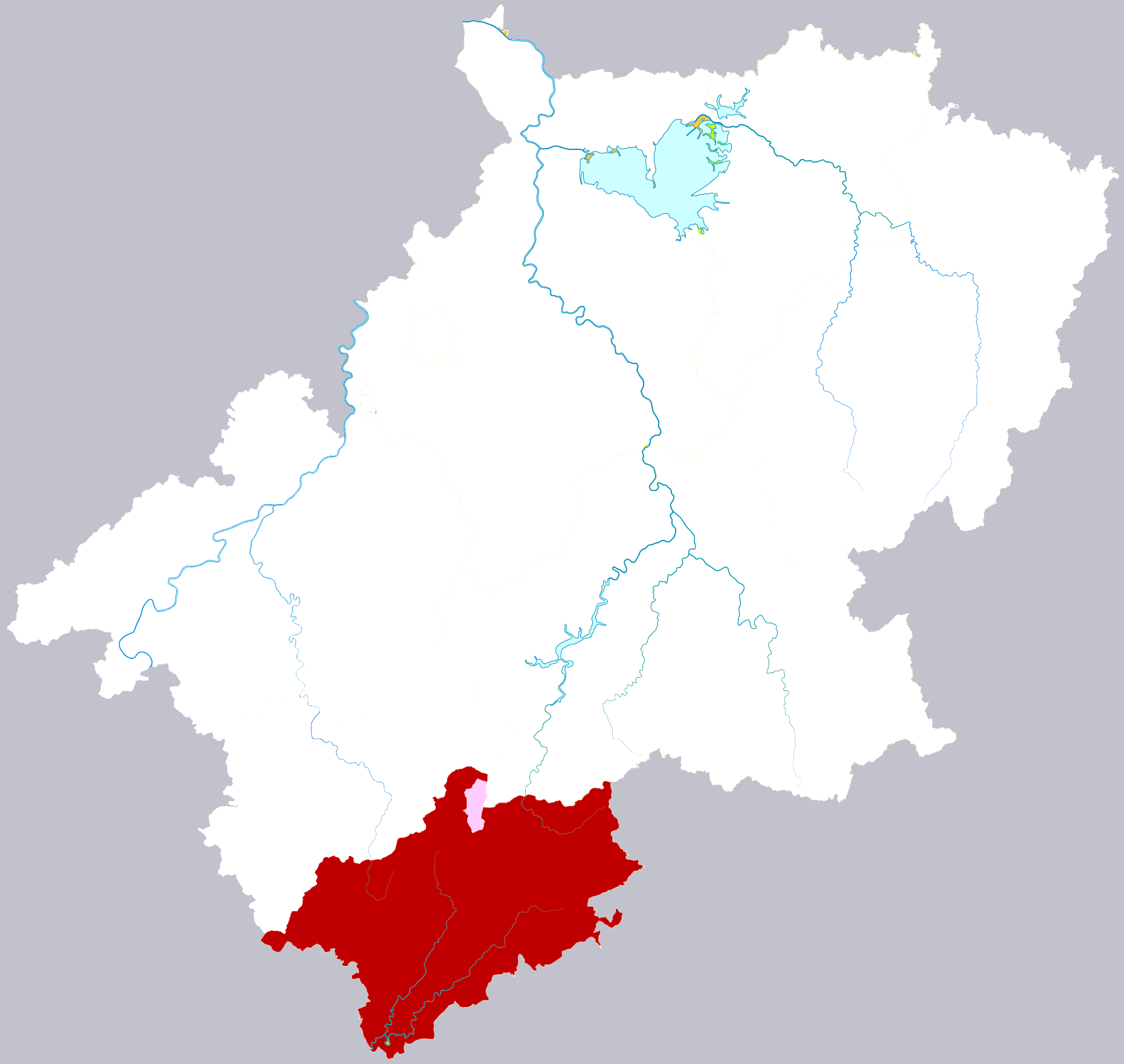 Location of Jixi county- in Xuancheng city, China